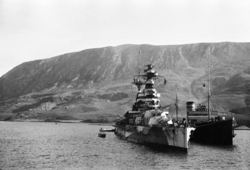 The Royal Navy battleship HMS Barham oiling in Suda Bay, Greece.